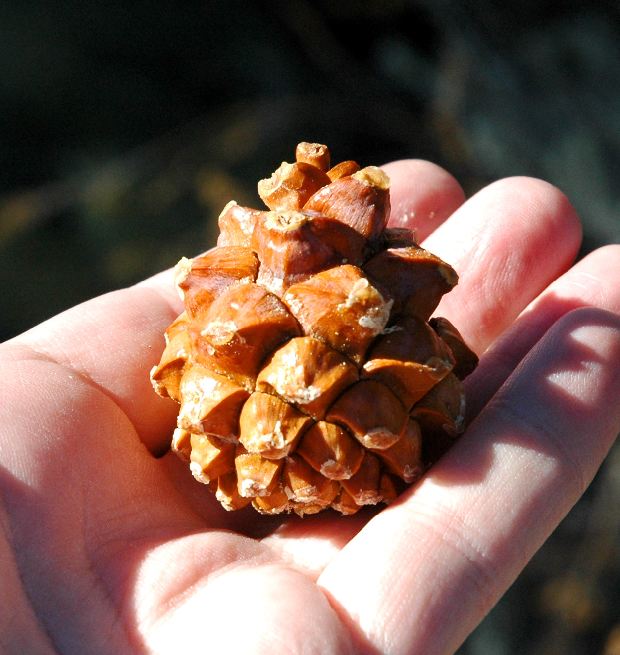 Pinus monophylla cone. Near entrance to Ancient Bristlecone Pine Forest, White Mts., California.